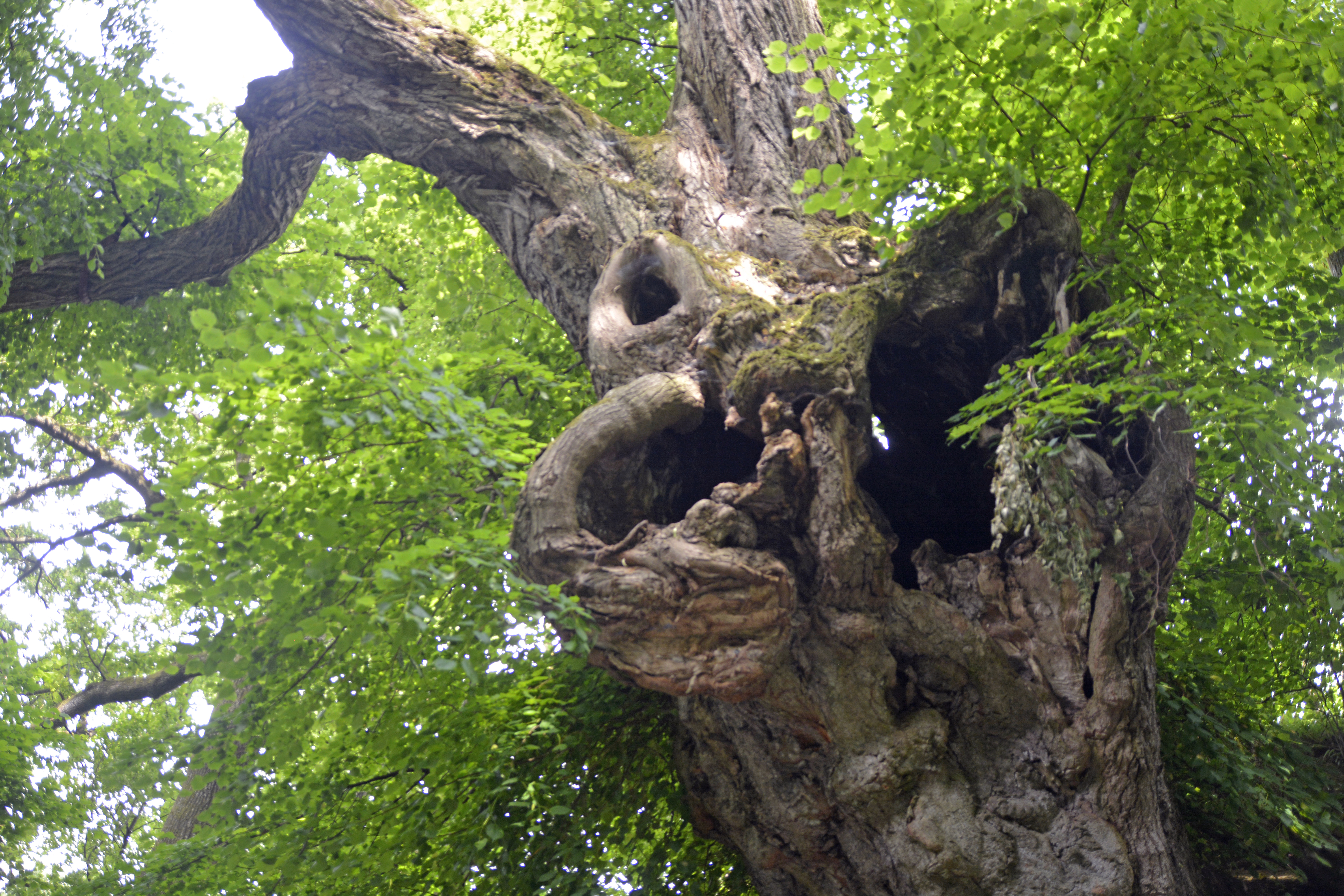 Hollow Linde in Obermarbach